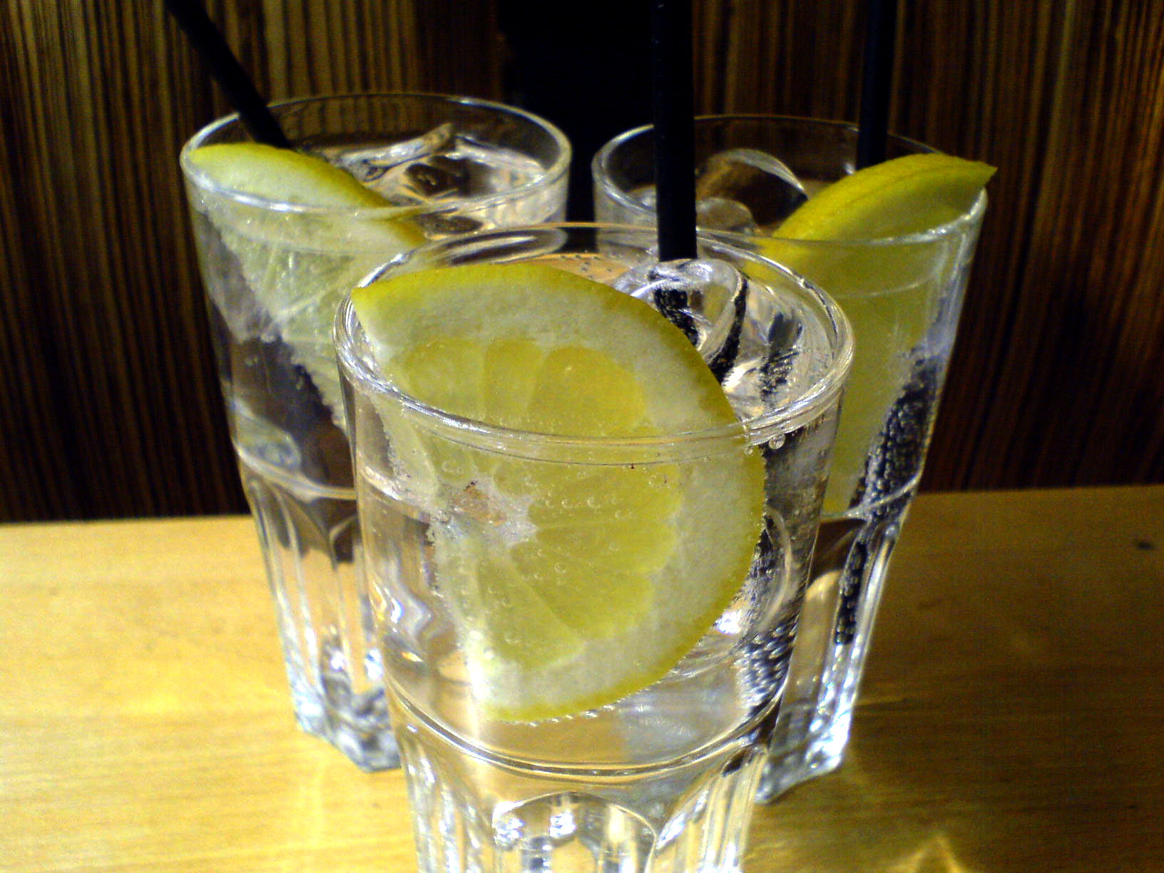 Gin & tonic